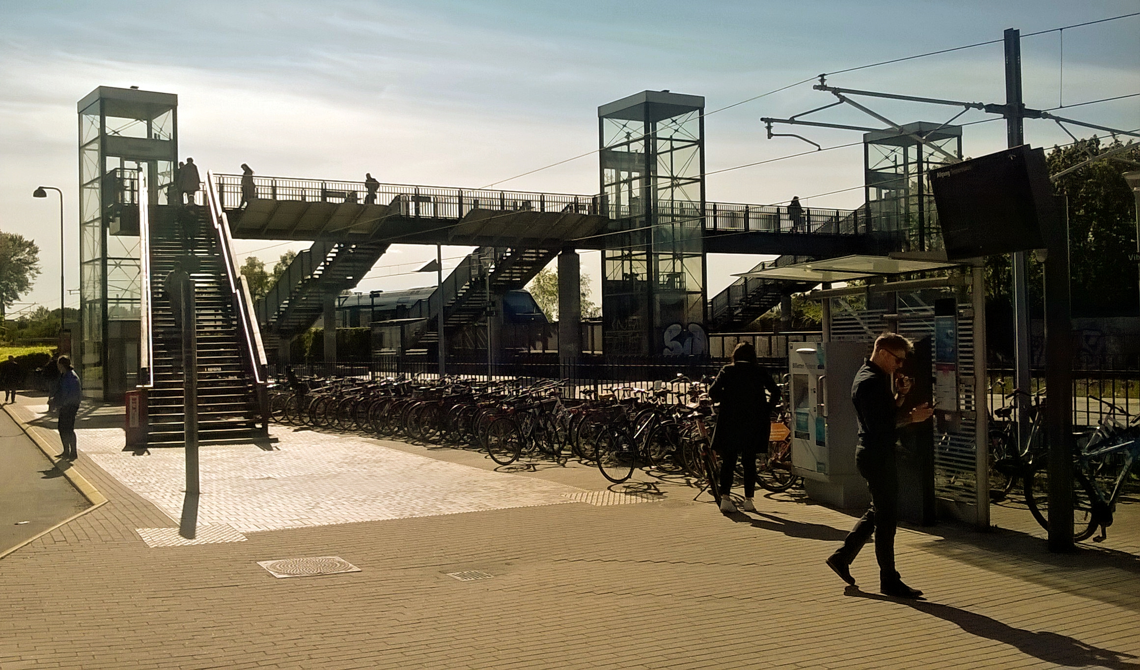 Viby J Station 2019